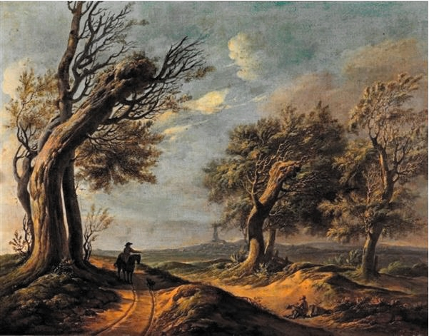 Horseman and Traveller in a Landscape